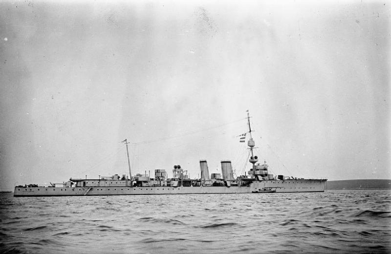 British light cruiser HMS CALLIOPE.